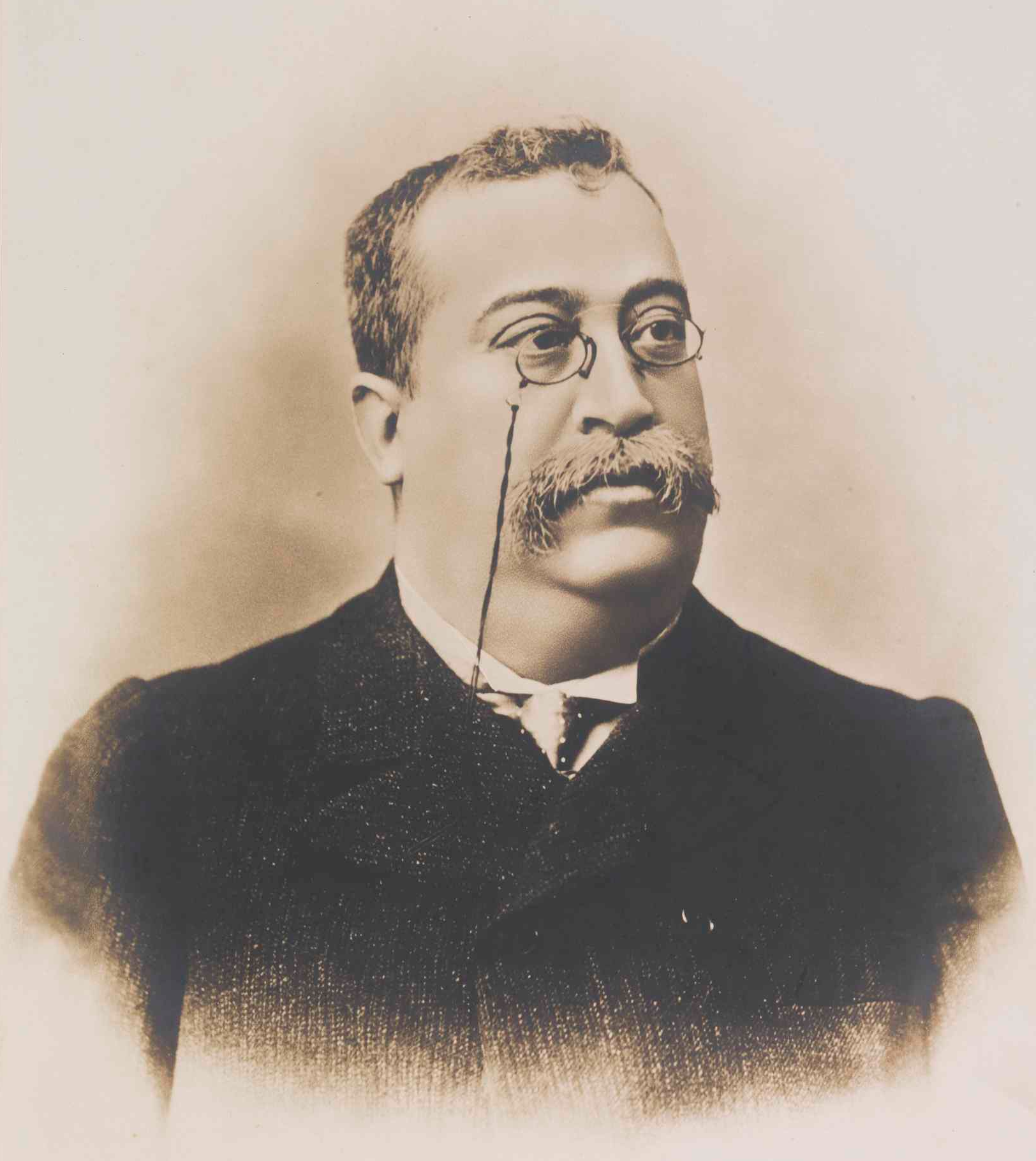 Sampaio Bruno (1857-1915), Portuguese writer, essayist, philosopher, and Republican politician.